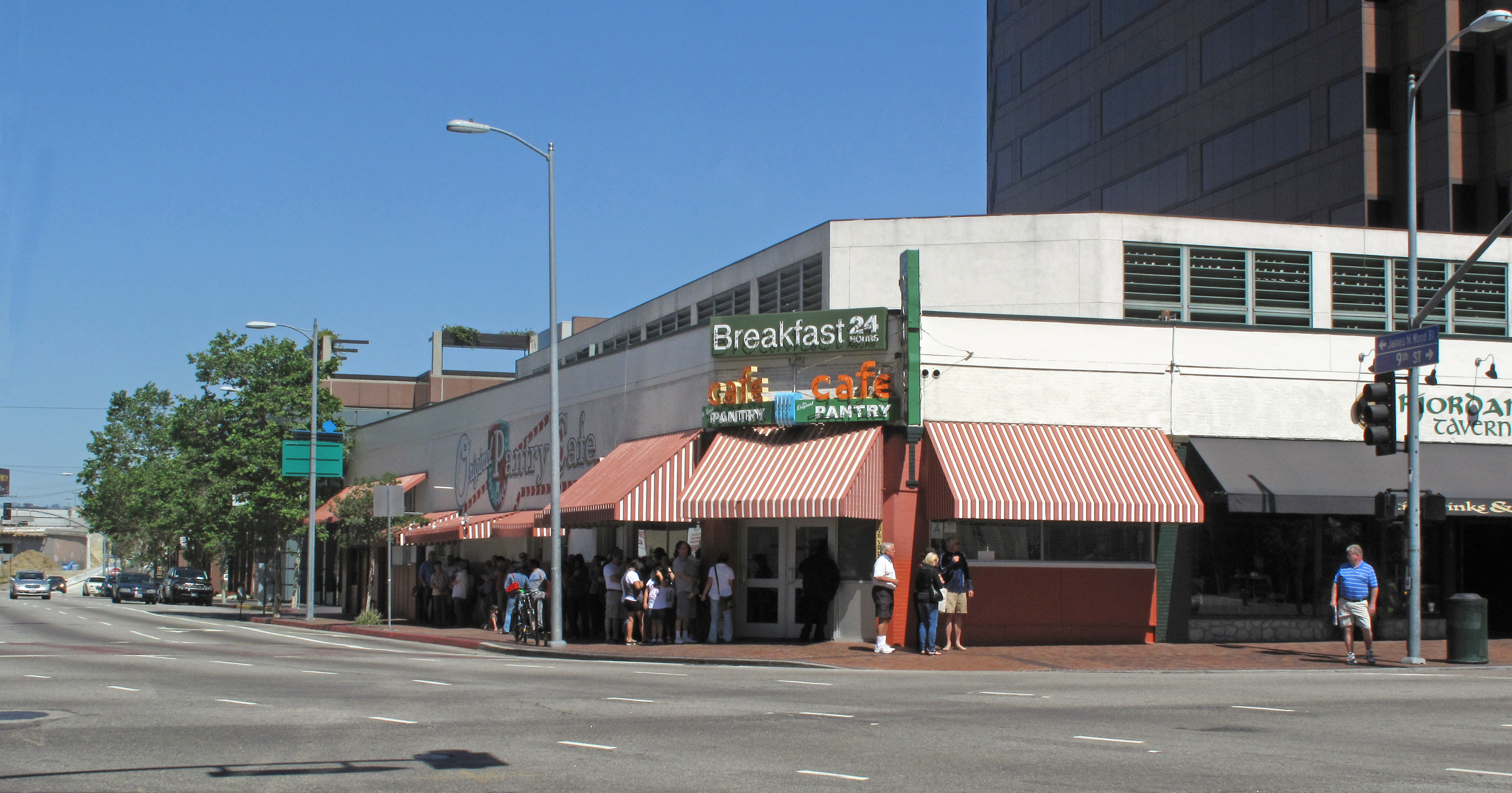 Original Pantry Café, at 9th & Figueroa Streets, Los Angeles, California, on a Saturday morning